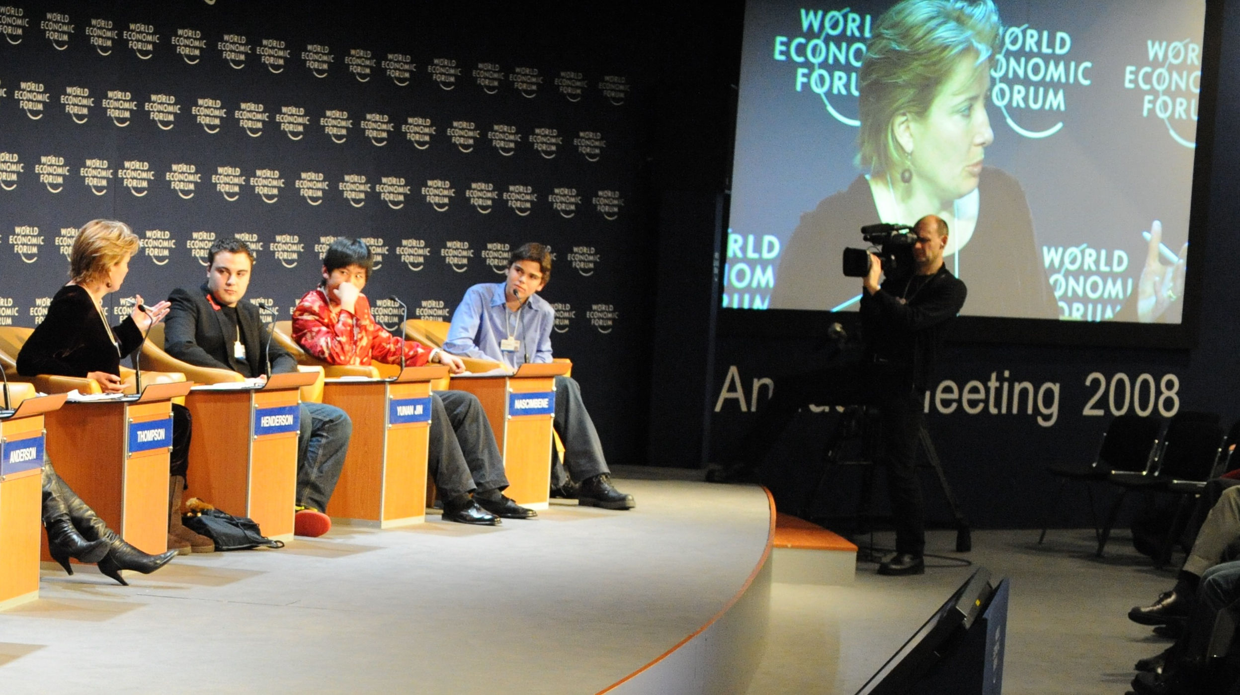 British actress Emma Thompson leads a youth panel at the 2008 World Economic Forum